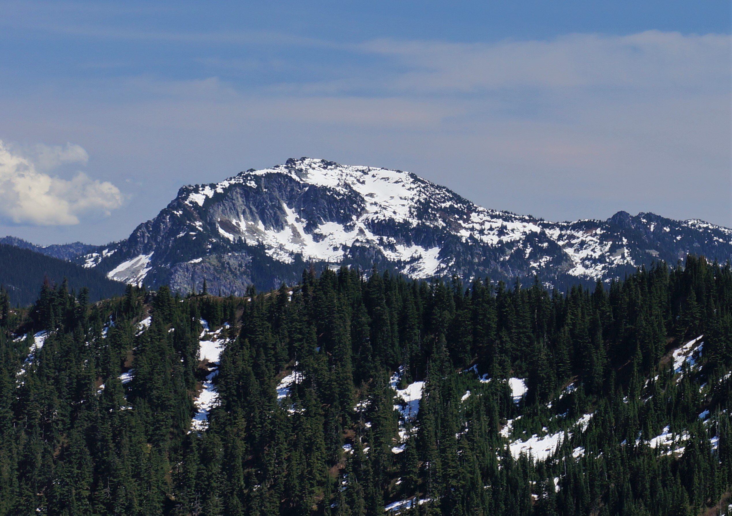 Looking southeast at Mac Peak from Mt. Sawyer